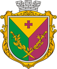 Coat of Arms of Oleksnandria. Kirovograd Oblast Ukraine